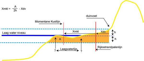 method to average out variations in the position of the low water line